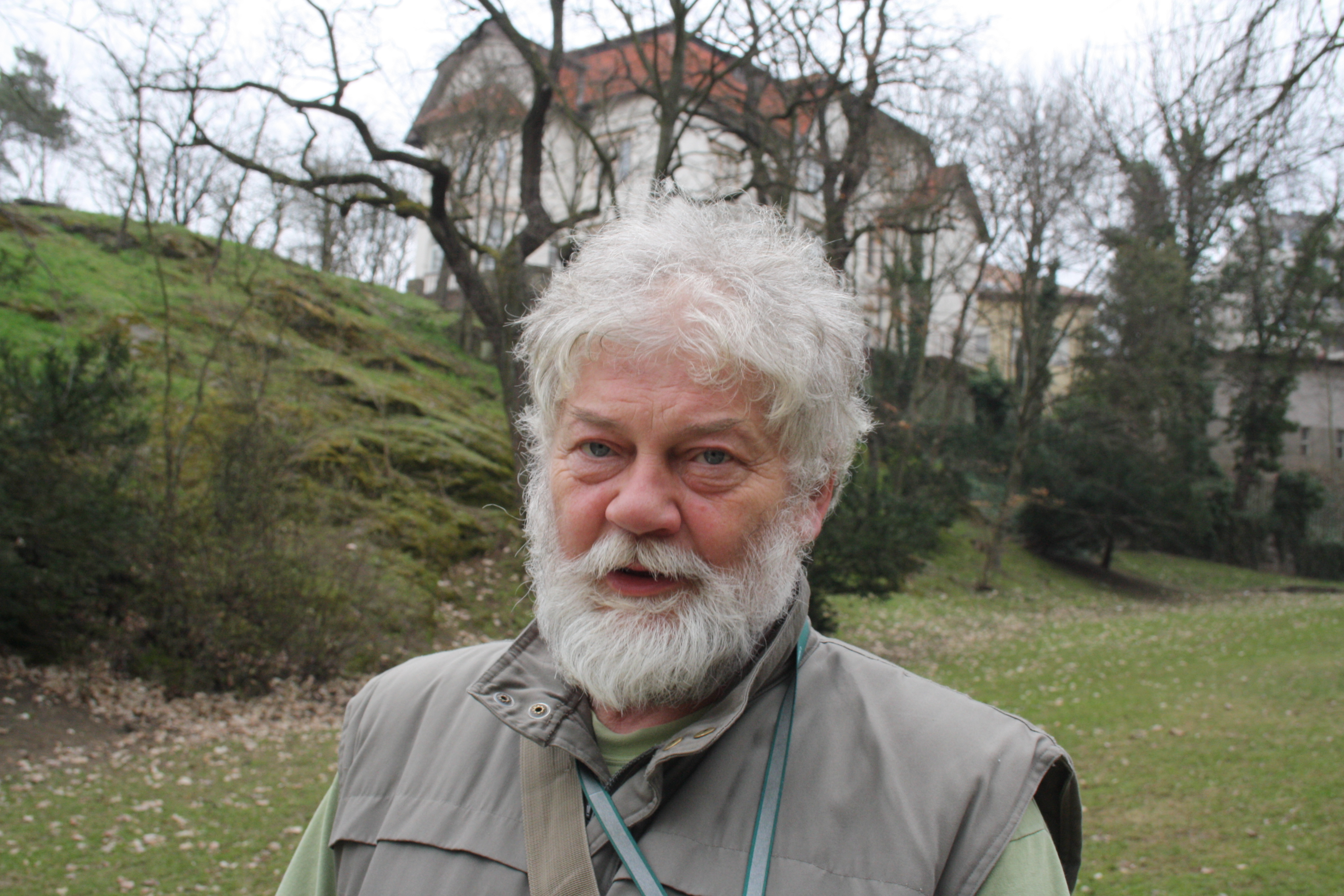 Pavel Heřman at May 2010.